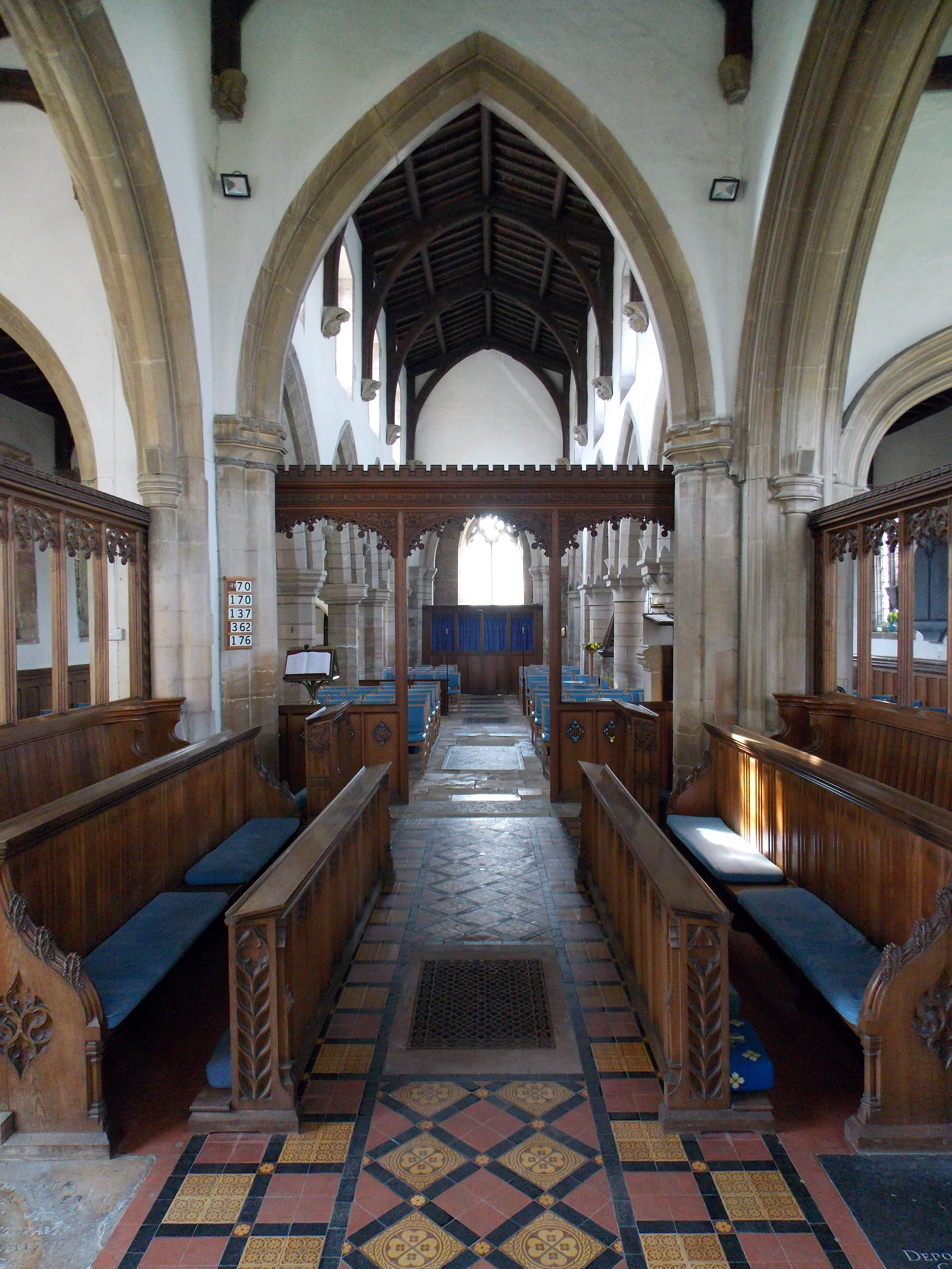 St Mary and St Peter's parish church, Harlaxton, Lincolnshire: view west through the chancel arch to the nave